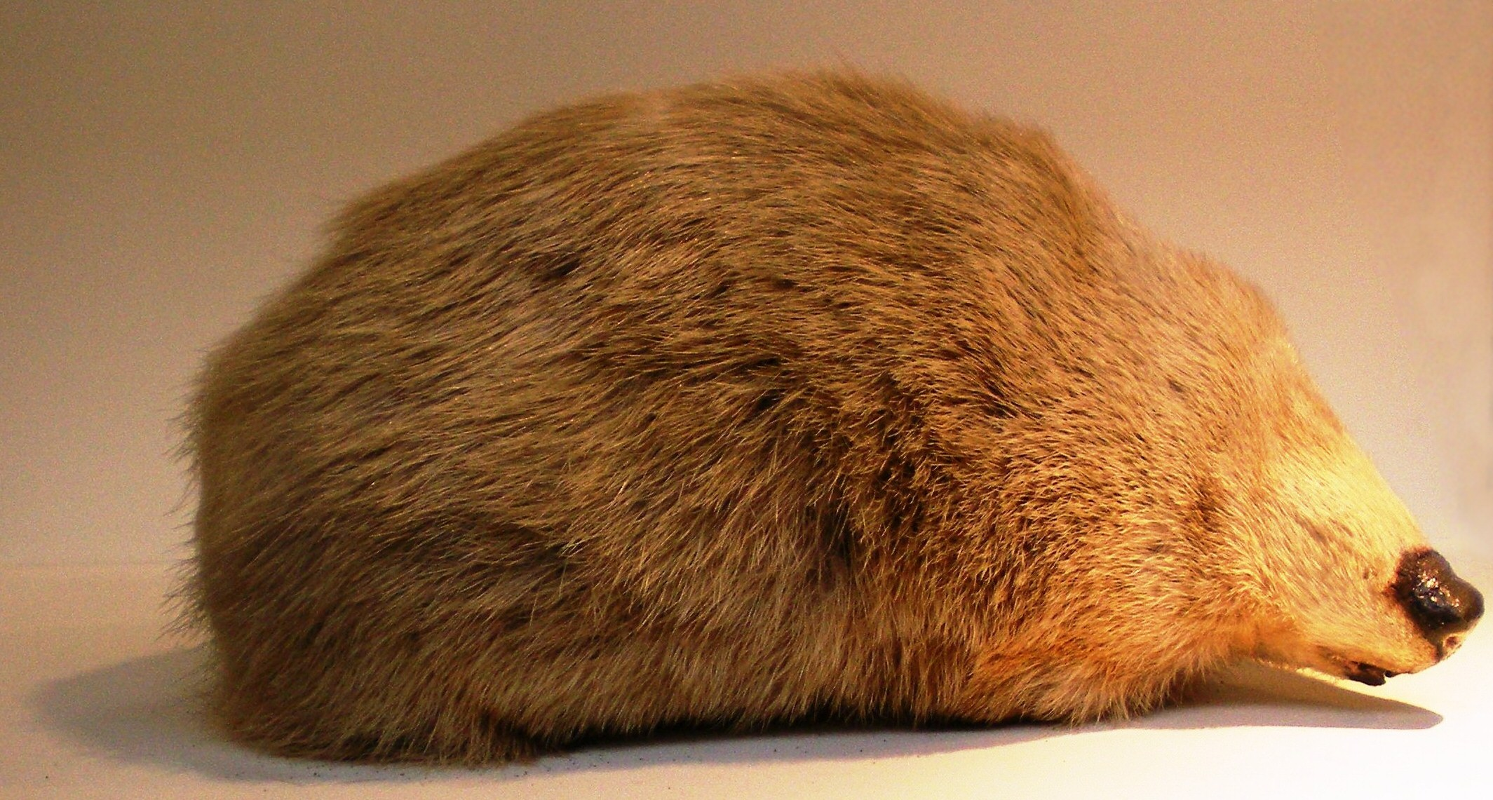 Trevelyan's Golden Mole